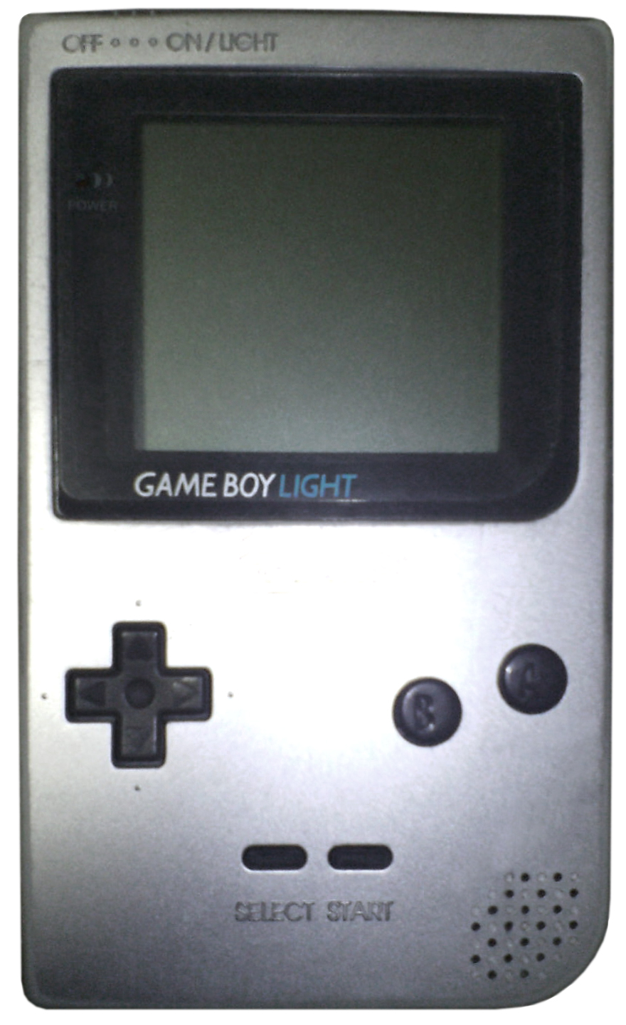 Game Boy Light